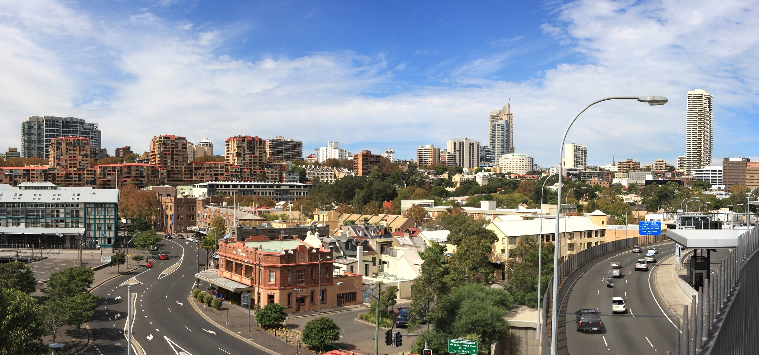 Woolloomooloo, New South Wales